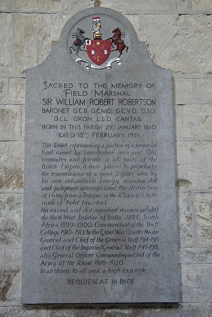 Memorial to Field Marshal Sir William Robertson Memorial to Field Marshal Sir Willaim Robert Robertson Bt.GCB.GCMG.GCVO.DSO.DCL.LLD - born in Welbourn in 1860, his first job was as gardener at the rectory, he joined the army as a trooper and held every rank possible.